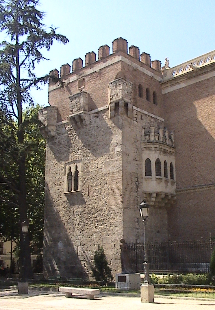 Tenorio Bishop Tower of the fortress-palace of the Archbishop of Alcalá de Henares (Madrid - Spain) the thirteenth century